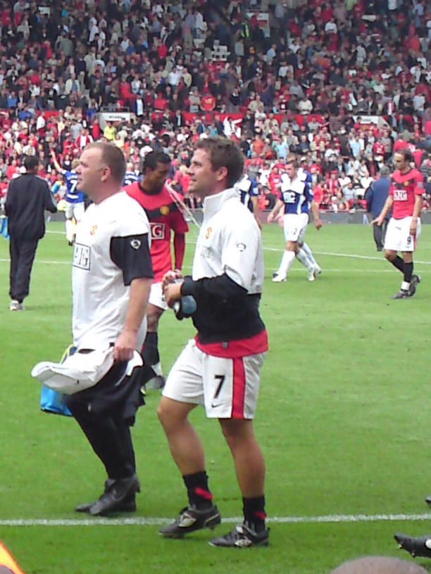 Michael Owen at Manchester United vs Birmingham City at Old Trafford, Manchester, on 16 August 2009